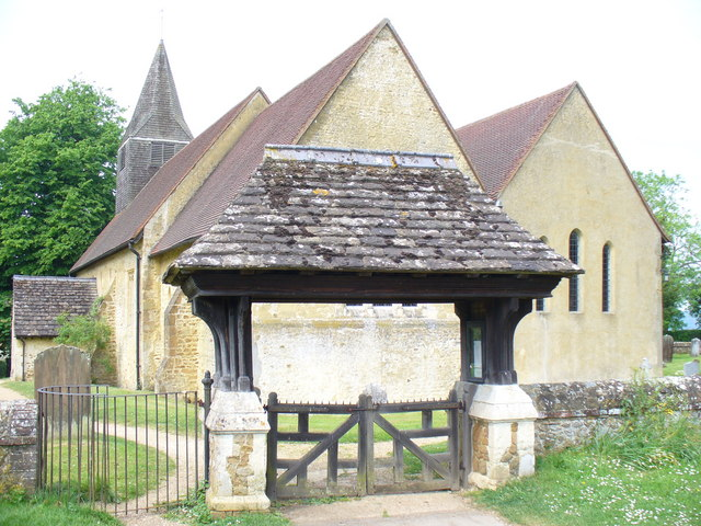 St James, Abinger Lych gate outside the Norman church in Abinger. After much 19th and 20th restoration, the church is now very modern inside.